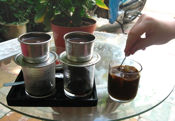 A pair of Vietnamese single-cup coffee filters brewing, with a cup of iced coffee being stirred at right. Self-made, Da Nang, April 2009.